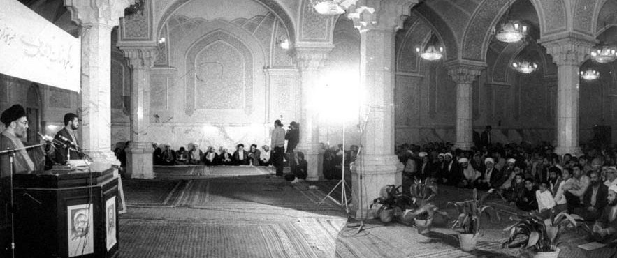 Ayatollah Ali Khamenei Giving Speech in Anniversary of Shahid Morteza Motahari